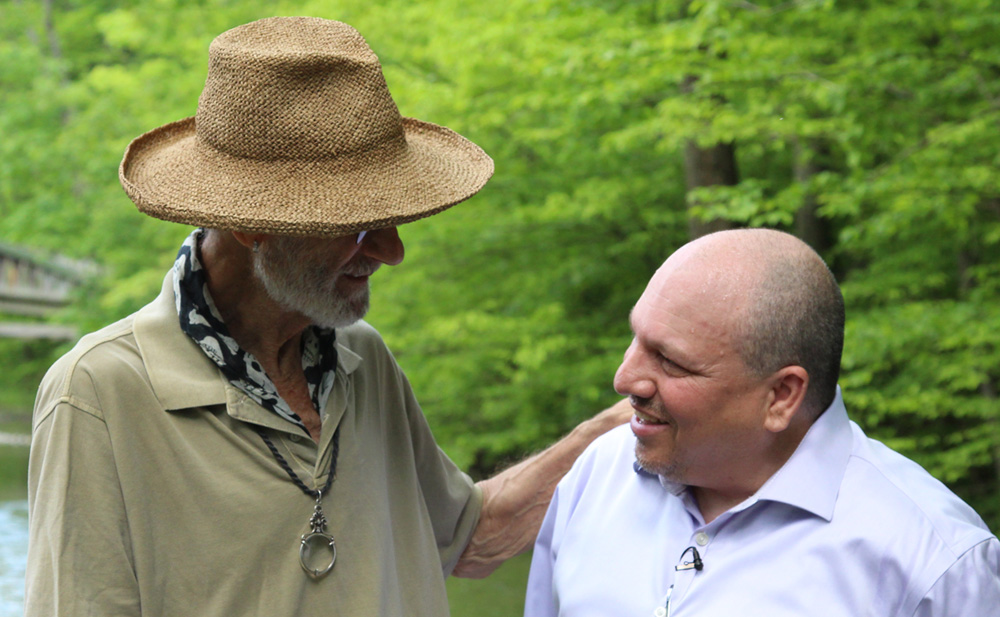 Frank Serpico (left) and Lorenzo Tartamella.